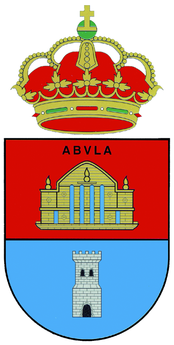 Aprobado: Decreto 16/1989, de 7 de febrero, por el que se autoriza al Ayuntamiento de Abla (Almería), para adoptar su Escudo Heráldico Municipal. (BOJA 3/3/1989) Descripción: Escudo Cortado. Primero, de gules, pórtico romano, centrado por tres columnas acabadas en capitel y cubiertas de un frontón de oro, superado de la inscripción "ABVLA" en letras de plata. Segundo, de azur, torre de plata. Al timbre, corona real cerrada. Significado: El pórtico y la inscripción -Abula era el nombre romano de la localidad- rememoran la importancia de la ciudad en época romana. La torre recuerda la influencia árabe y su carácter defensivo.